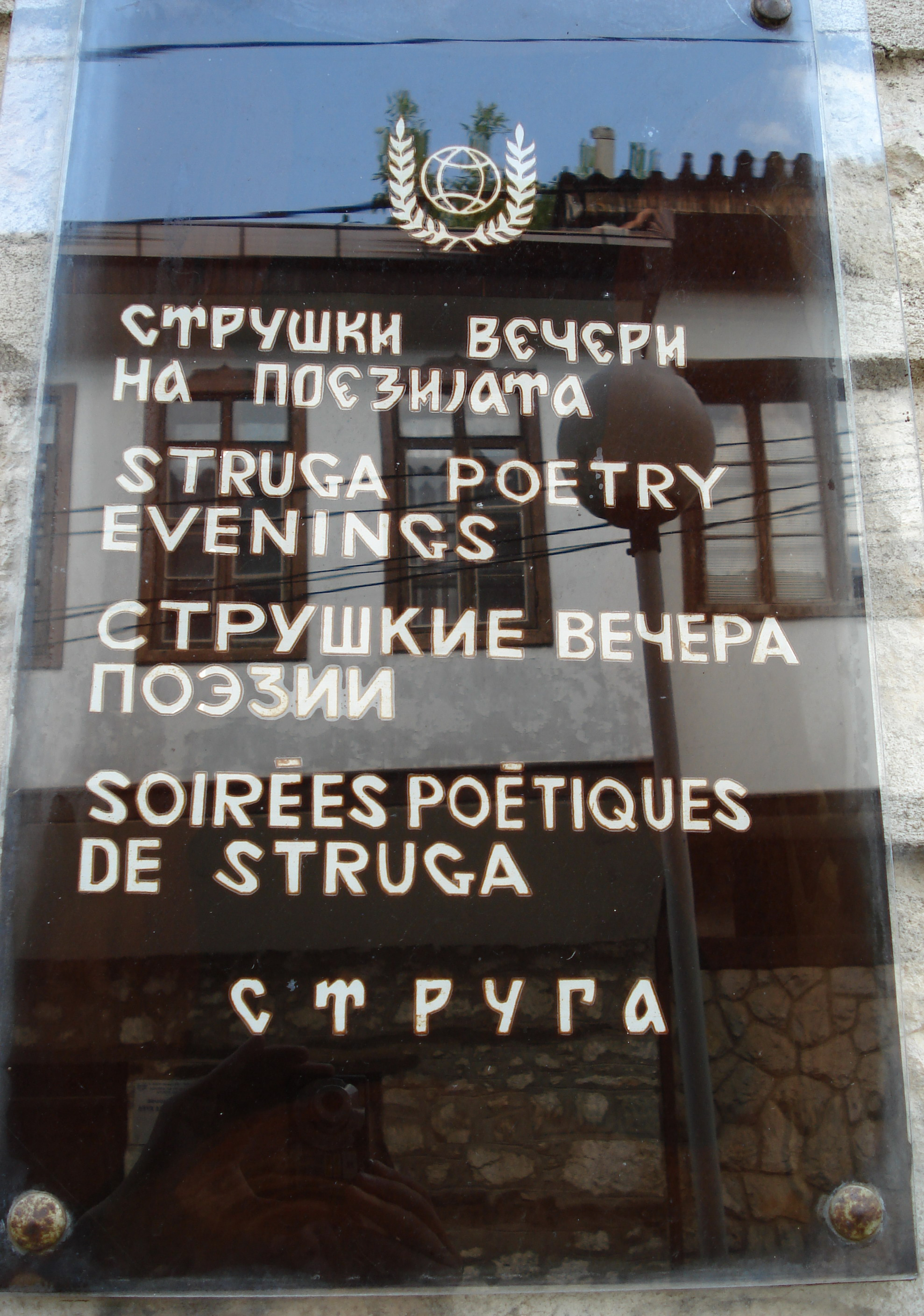 entirely my work. Struga Poetry Evenings (Струшки вечери на поезијата), Struga, Republic of Macedonia.